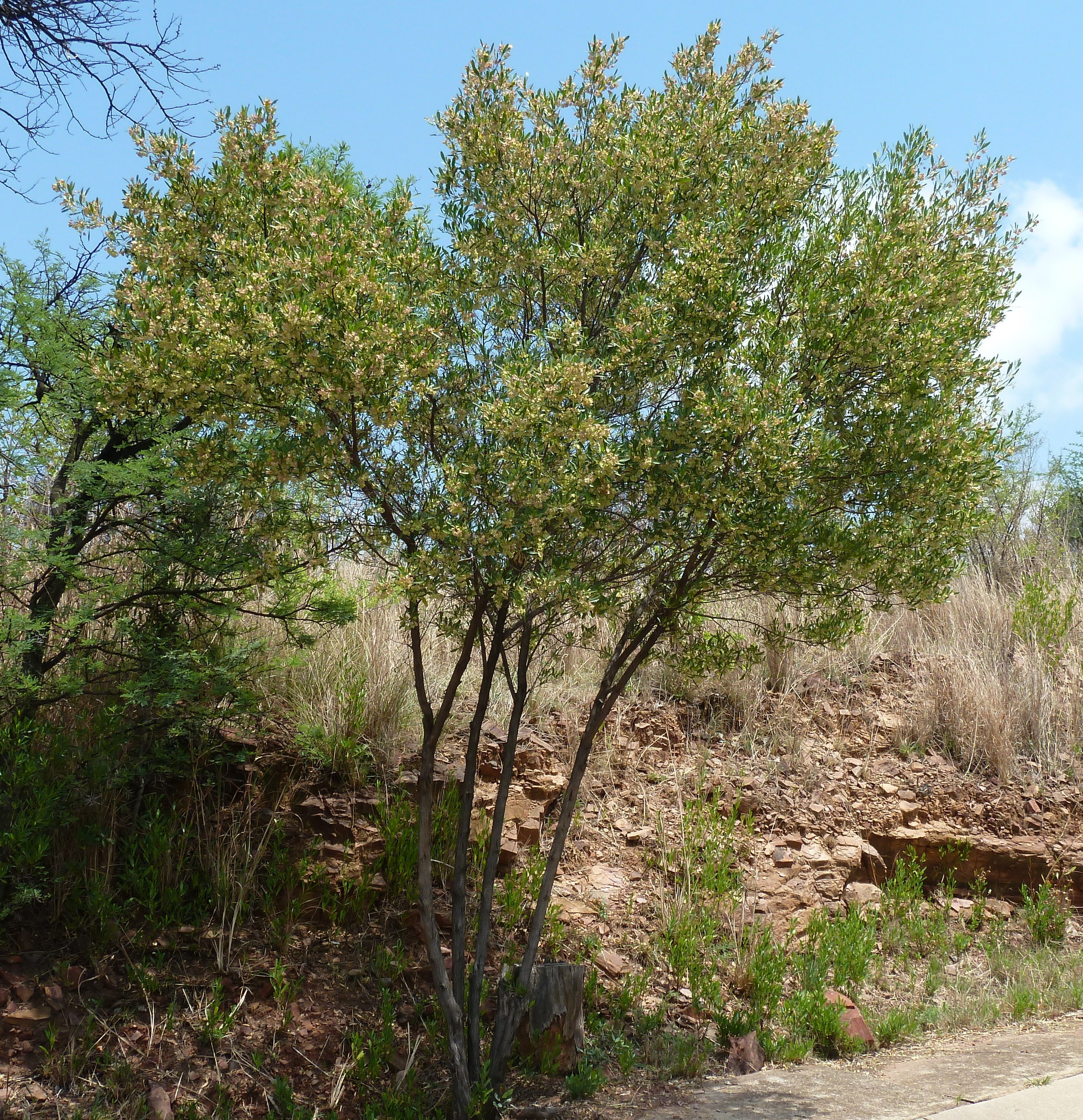 Habit of a Sand olive at Schanskop, Pretoria, here growing as pioneer plant in the disturbed area beside a road.